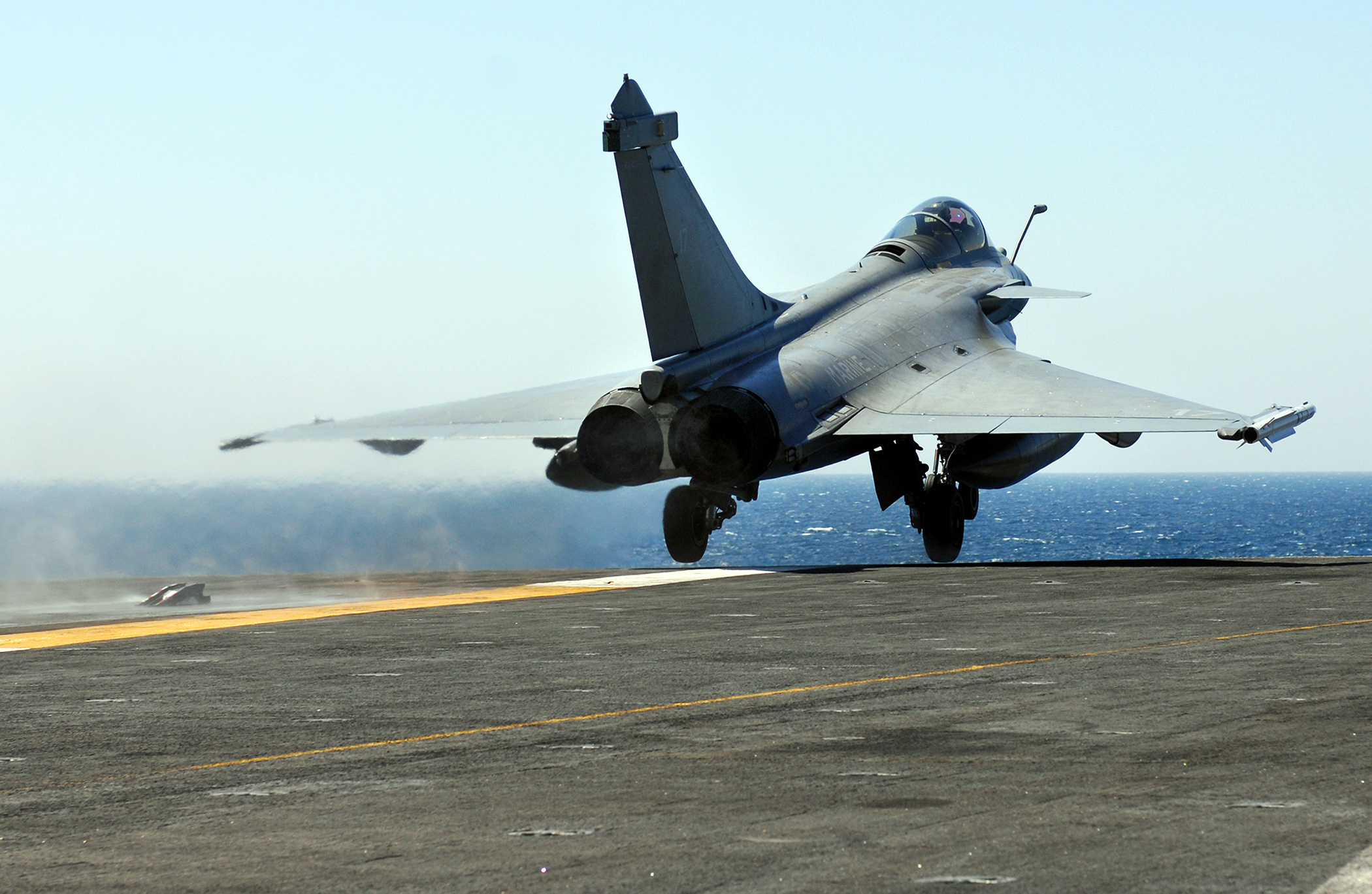 French Navy Rafale jet launches from the flight deck of the aircraft carrier USS Harry S. Truman (CVN 75) during carrier launch and recovery qualifications.